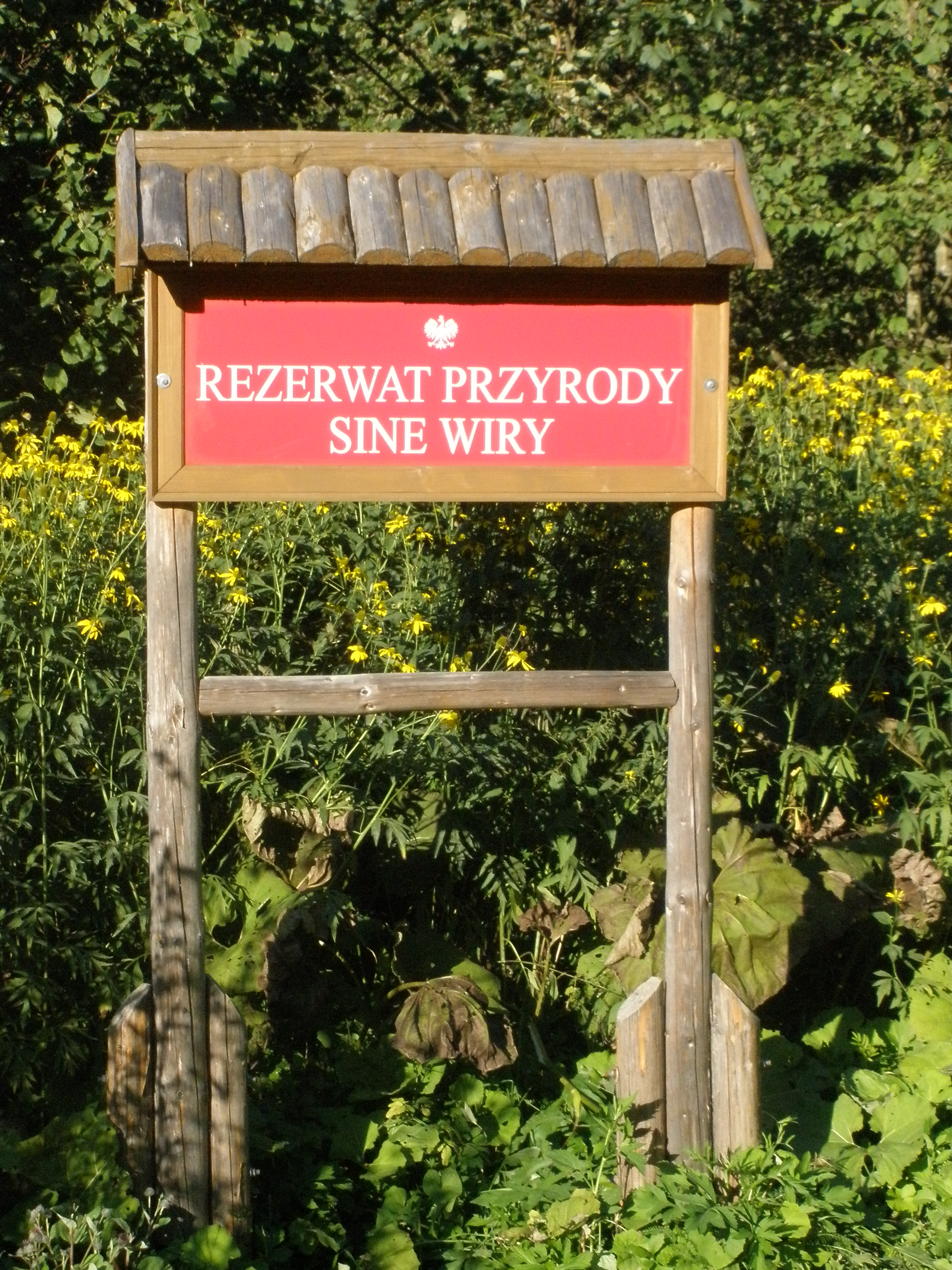 Board at the Sine Wiry reserve.